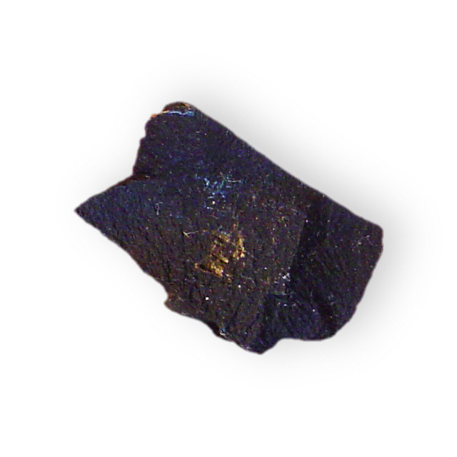 These mineral images are free to use how you wish.